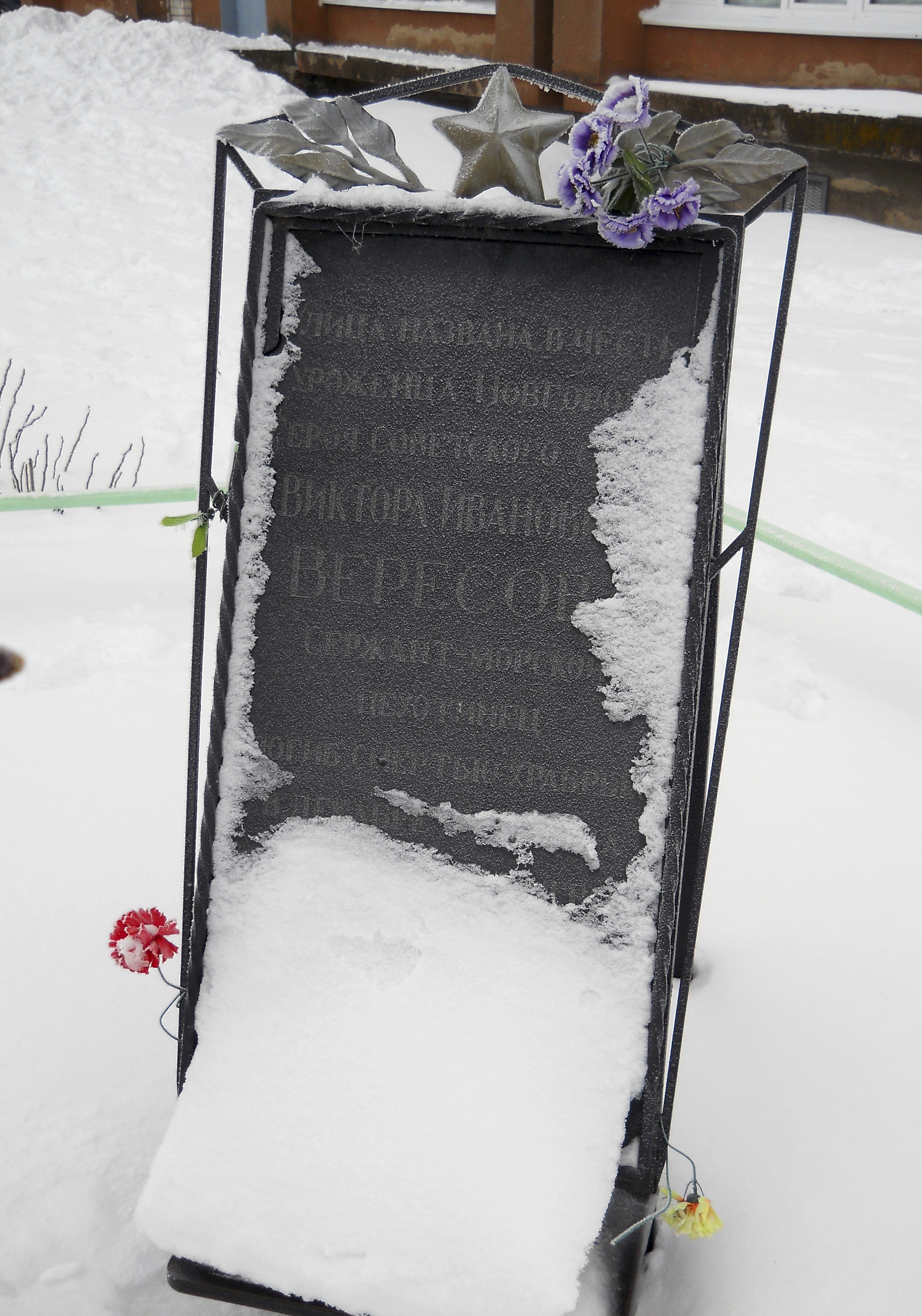 Memory plaque in the Veresova street in Veliky Novgorod, Russia